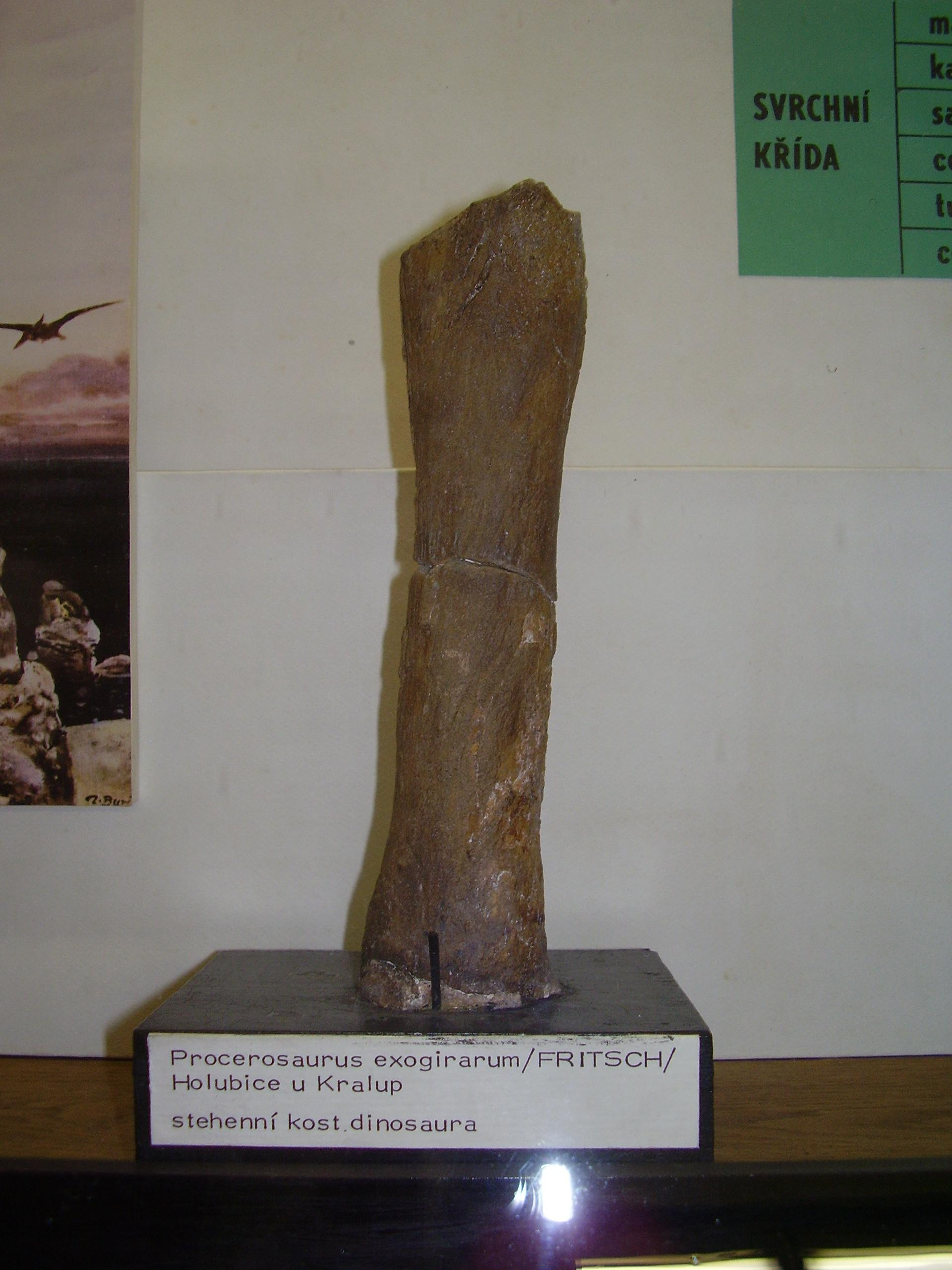 Fossil bone of Procerosaurus exogyrarum, possible dinosaur from the Czech Republic. National Museum, Prague (2007).